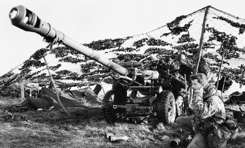 A 105 mm light gun of 29 Commando Regiment, Royal Artillery sited under camouflage netting between Fitzroy and Bluff Cove in the Falkland Islands, June 1982. A 105 mm light gun of 29 Commando Regiment, Royal Artillery sited under camouflage netting between Fitzroy and Bluff Cove.